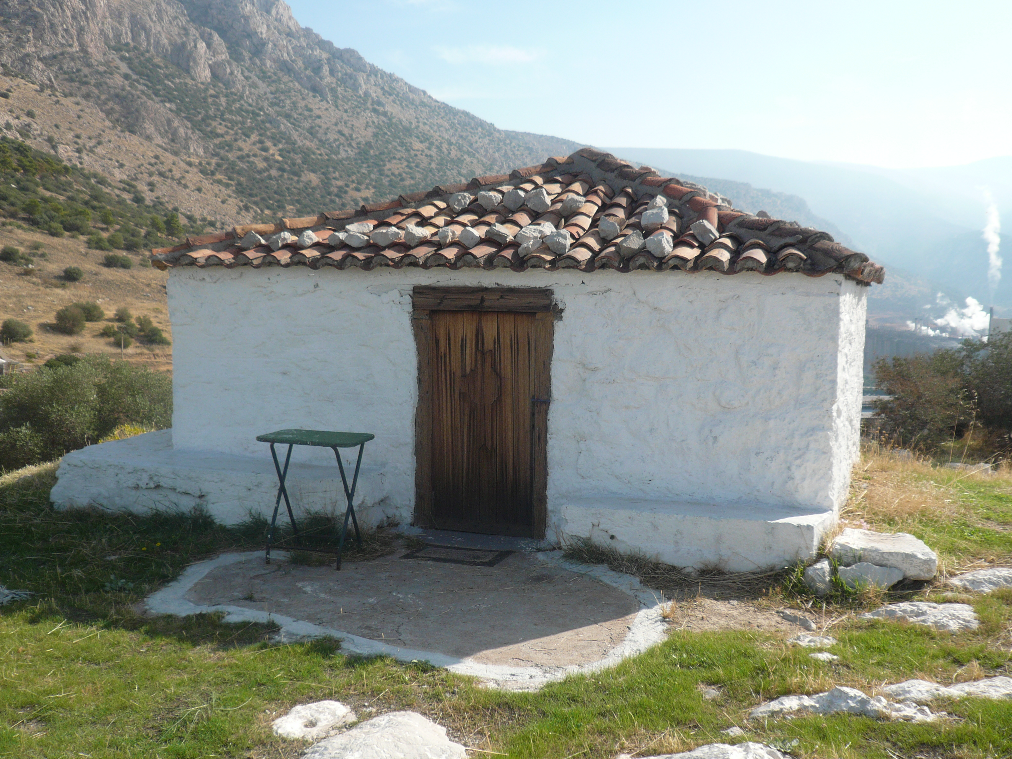 Church of saint Theodoroi in acropolis of Medeon, Boeotia, Greece